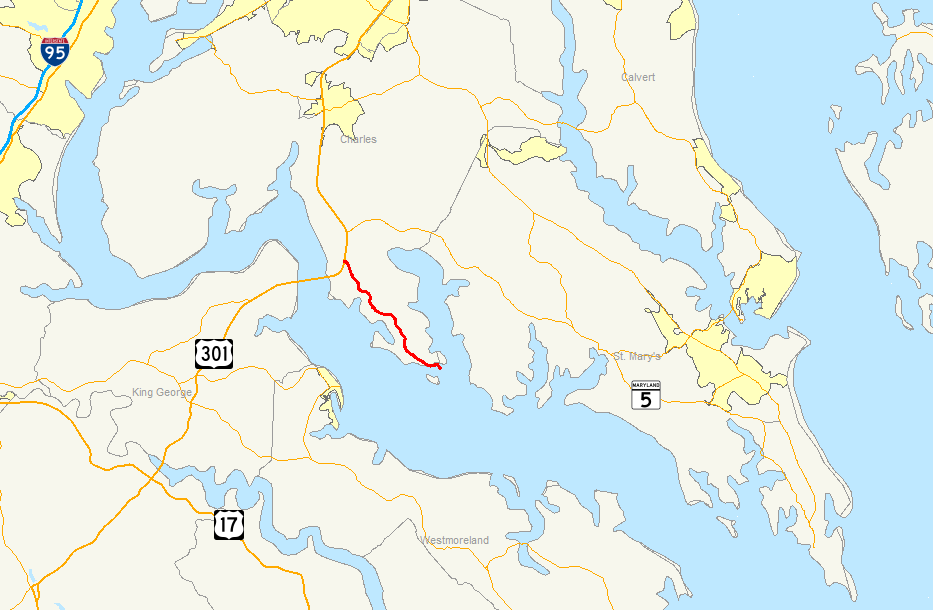 Map of Maryland Route 257